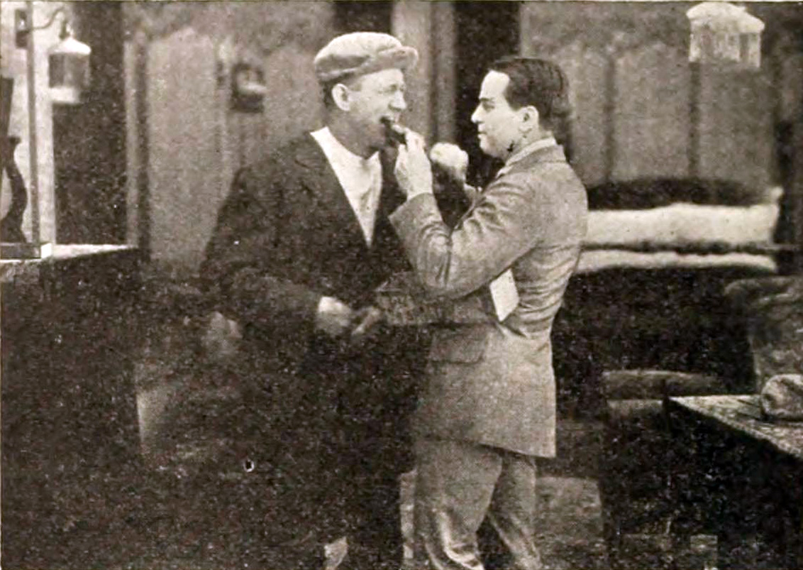 Illustration of a review in The Moving Picture World for the American film Reggie Mixes In (1916).